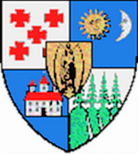 Coat of arms of Harghita County, Romania.